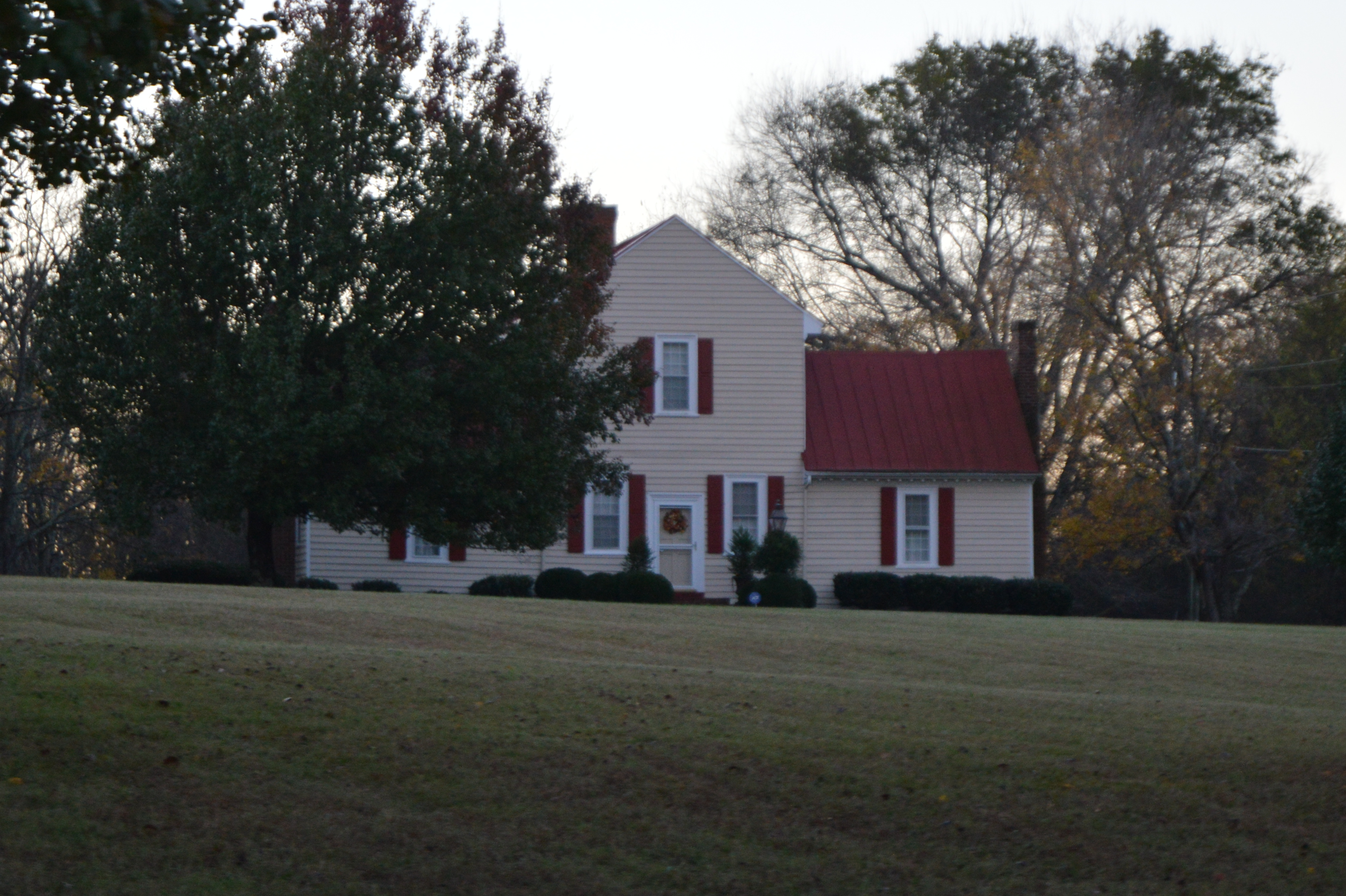 Roadside view of the Graves House, located on Main Street (North Carolina Highway 62) on the eastern side of Yanceyville, North Carolina, United States. Built in 1780, it is listed on the National Register of Historic Places.